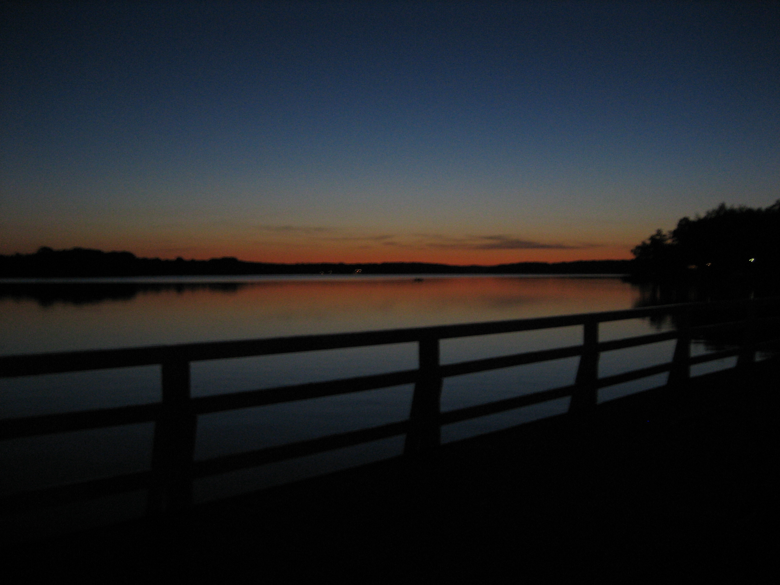 Picture of Kretowiny at dusk, Lake Narie.